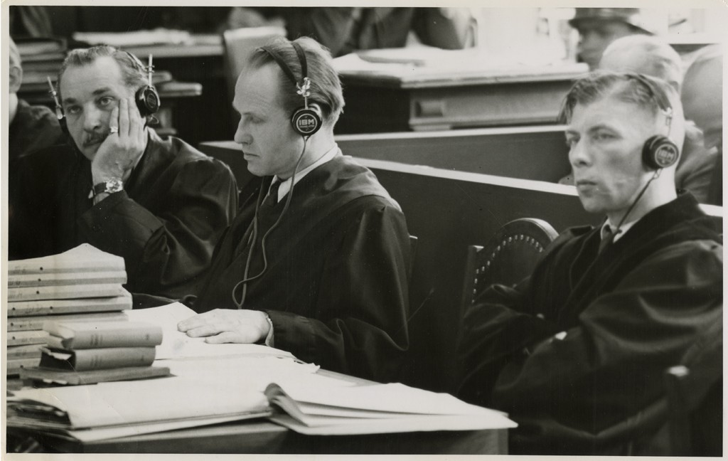 OMGUS MILITARY TRIBUNAL - CASE THREE OMT-III-DC-1 / Members of the defense counsel watch and listen as evidence is presented against their clients in the Justice Case, one of the current war crimes trials at Nurnberg directed against the former Nazi judges and public prosecutors. Left to right: Dr. Alfred Schilf of Ansbach defending Herbert Klemm; Dr. Erich Wandschneider of Hamburg-Othmarschen defending Curt Rothenberger and Dr. Heinrich Grub of Nurnberg defending Ernst Lautz.